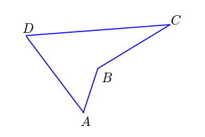 nonconvex quadrilateral with indicated vertices